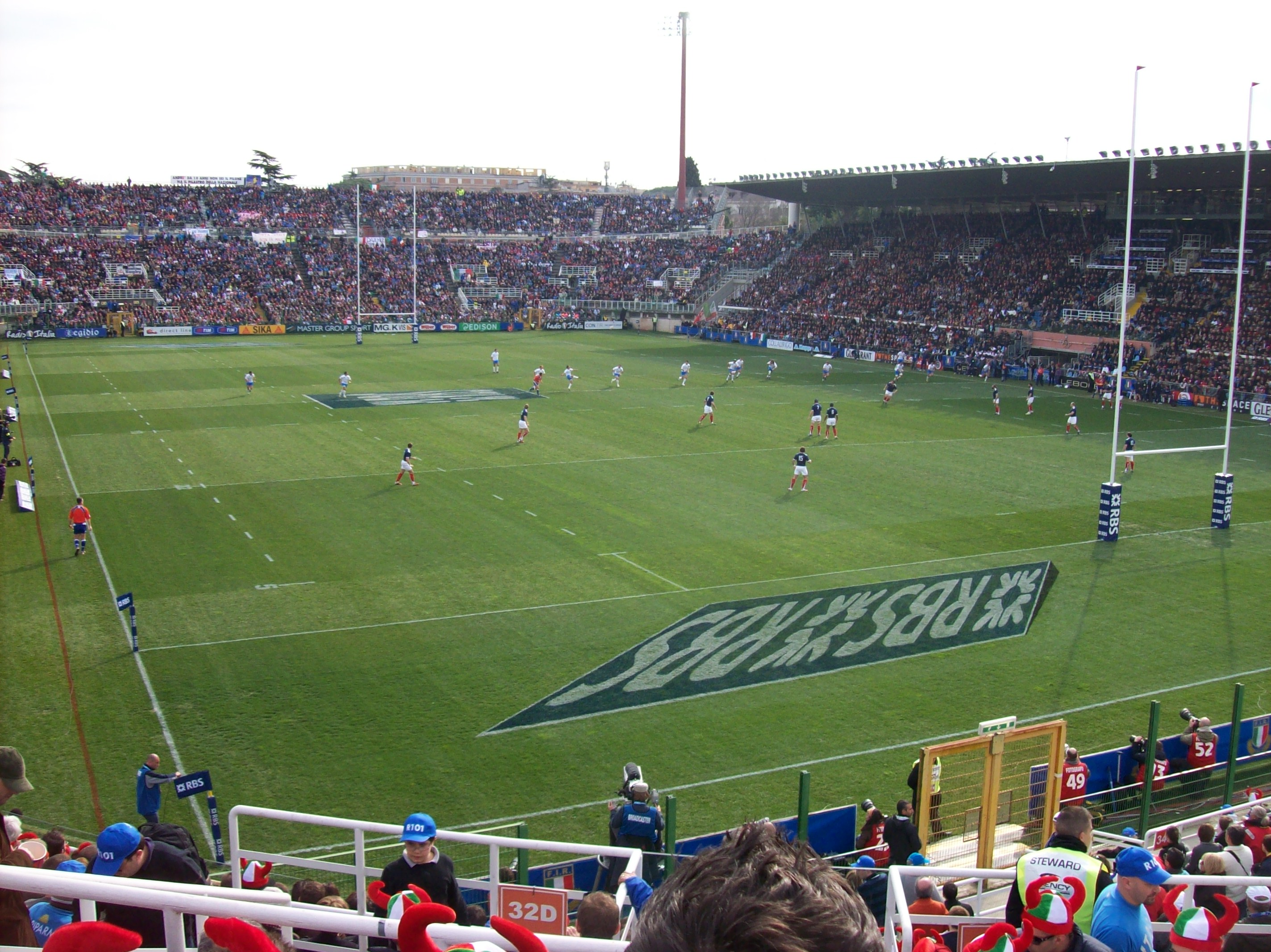 Italy and France during the 2011 Six Nations at the Stadio Flaminio in Rome. Italy eventually won 22-21, it was the first home win over the French side